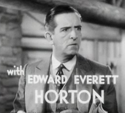 Cropped screenshot of Edward Everett Horton from the trailer for the film Biography of a Bachelor Girl